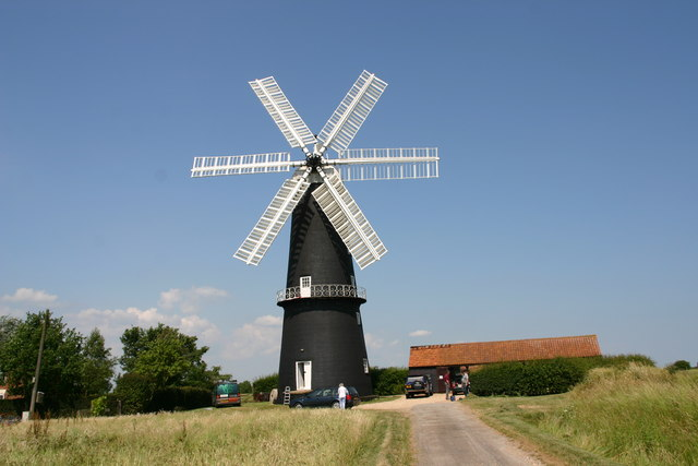 Trader Mill, Sibsey.